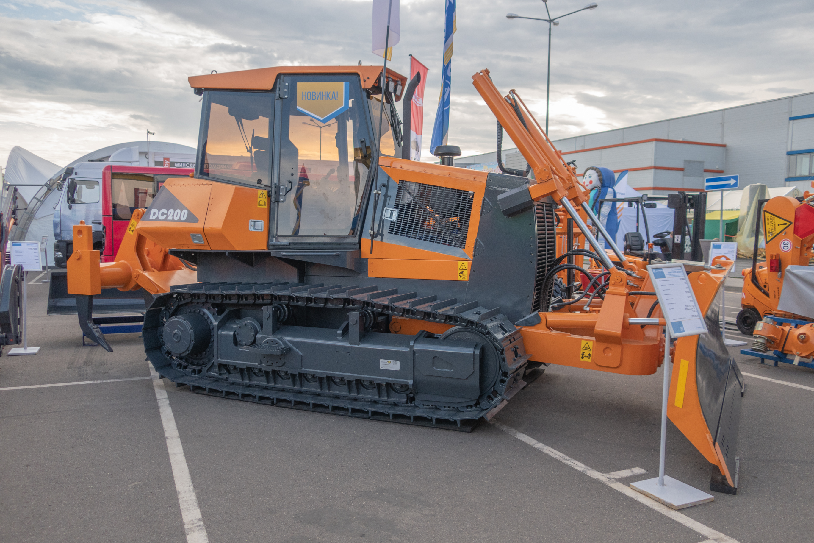 Amkodor DC200. Photo taken at Belagro-2019 exhibition (Minsk district, Belarus)